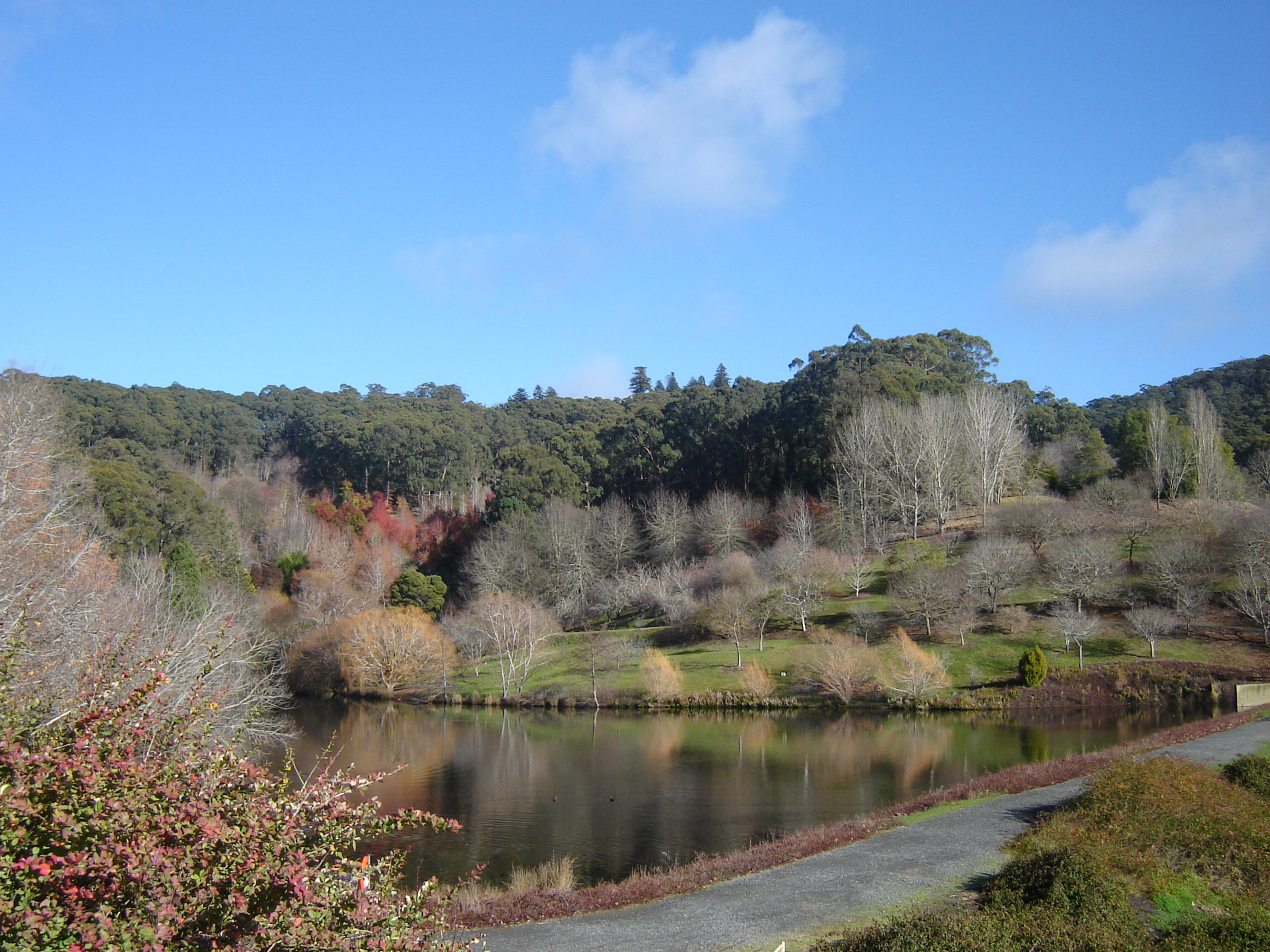 Taken by myself on the 17/07/05